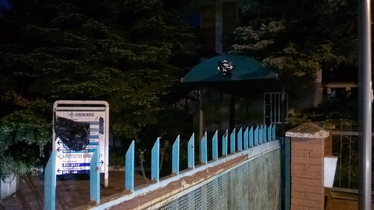 The former historical headquarters of the Generalmusic in via delle Rose 12 San Giovanni in Marignano